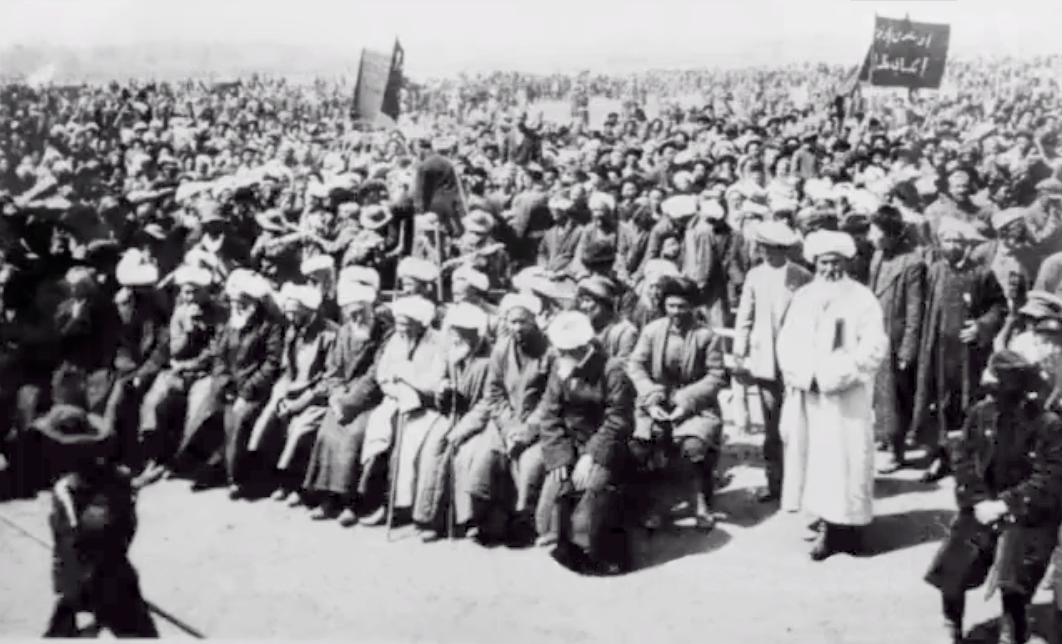 Establishment of the Turkish Republic of East Turkistan across from the Tumen Derya, Kashgar November 12, 1933